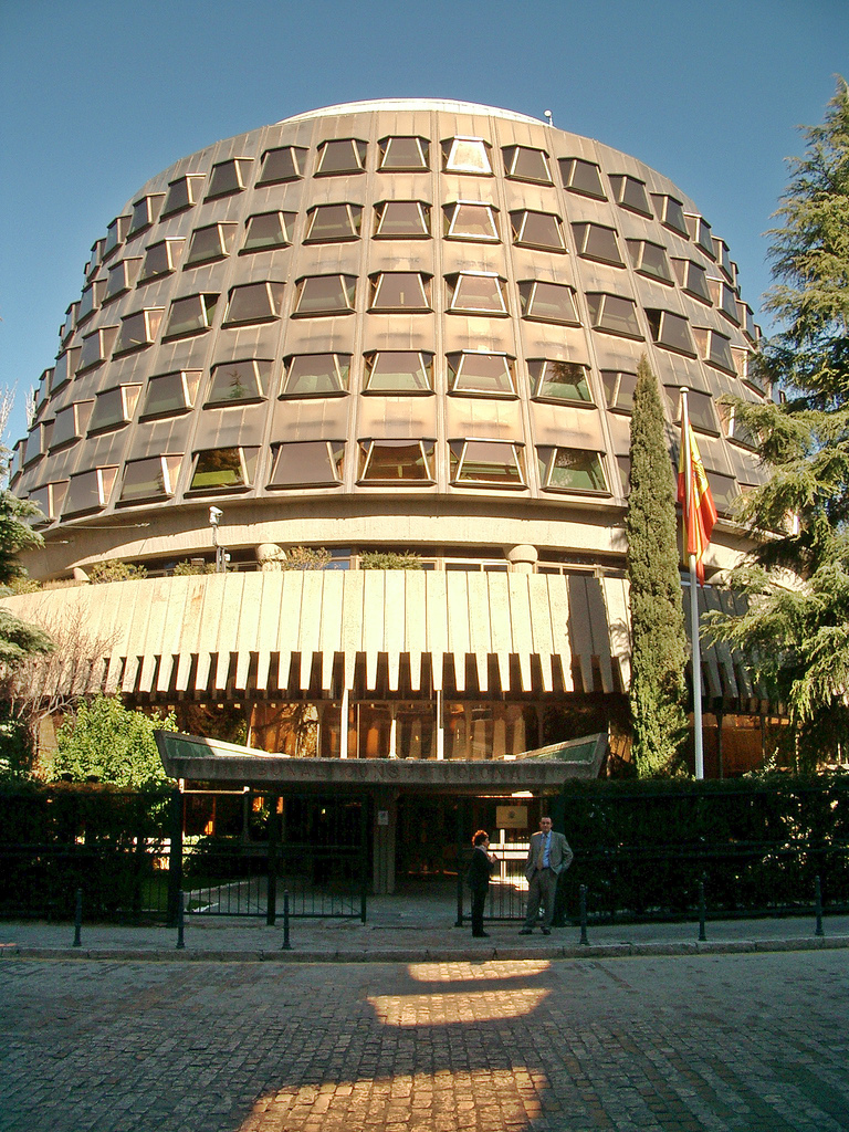 Kingdom of Spain Constitutional Court of Justice Building